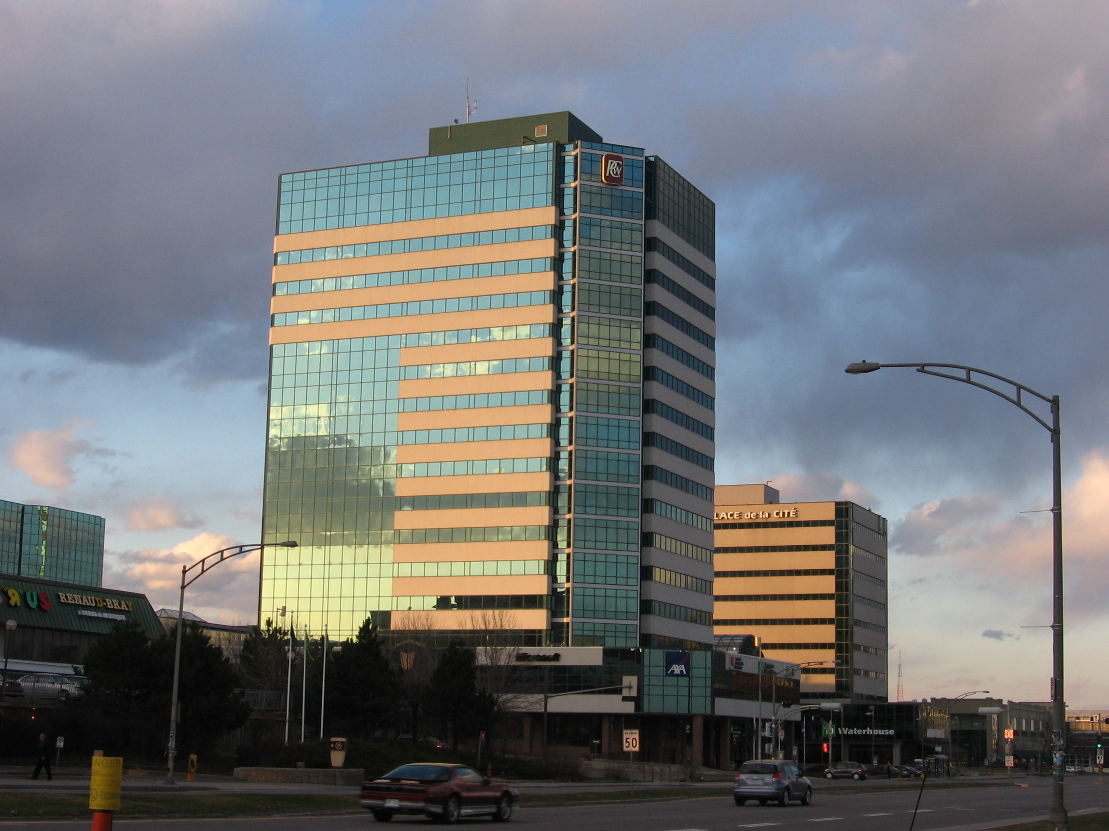 Sainte-Foy